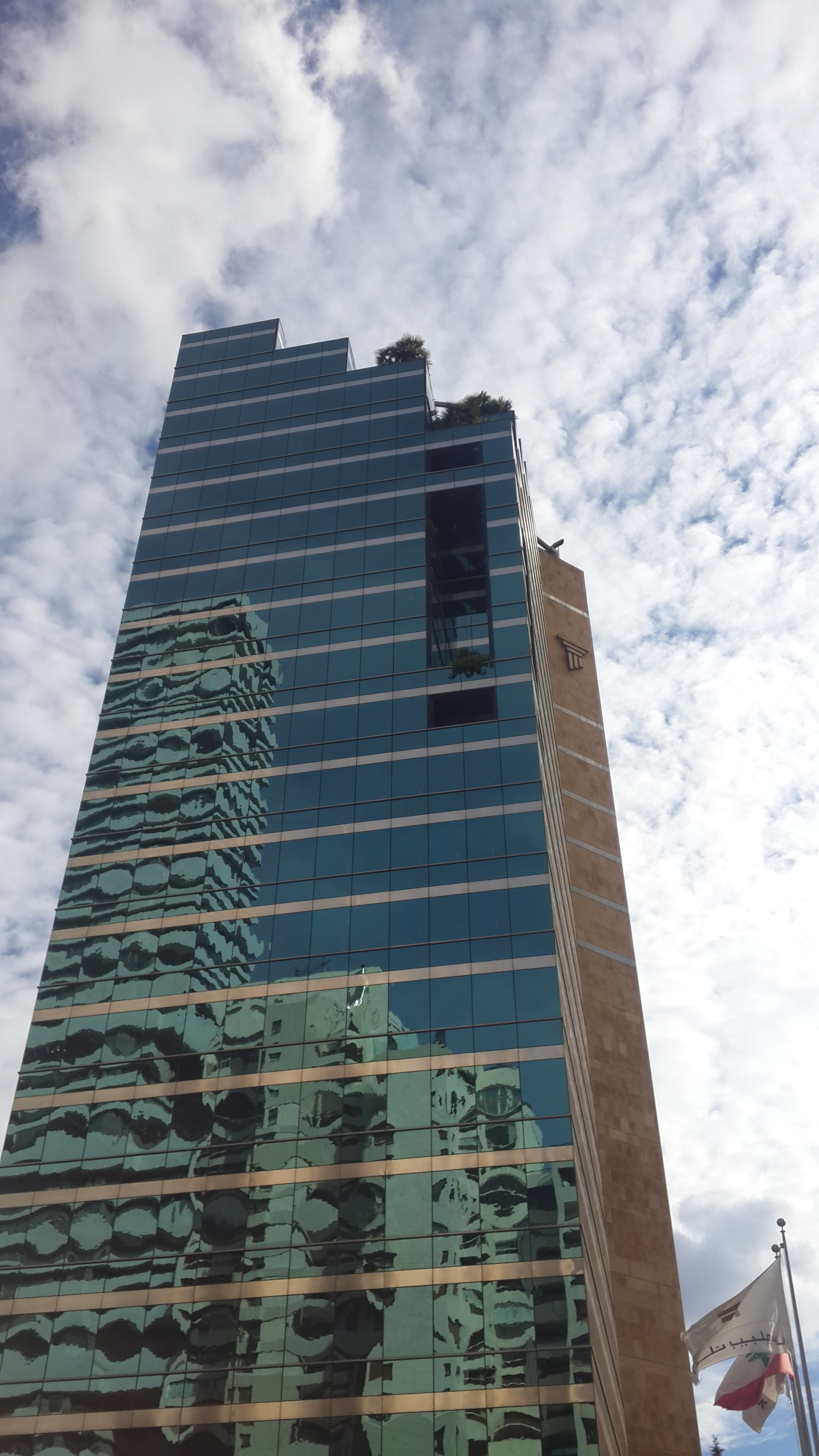 Byblos Bank Headquarters in Ashrafieh, Elias Sarkis Avenue, Beirut.